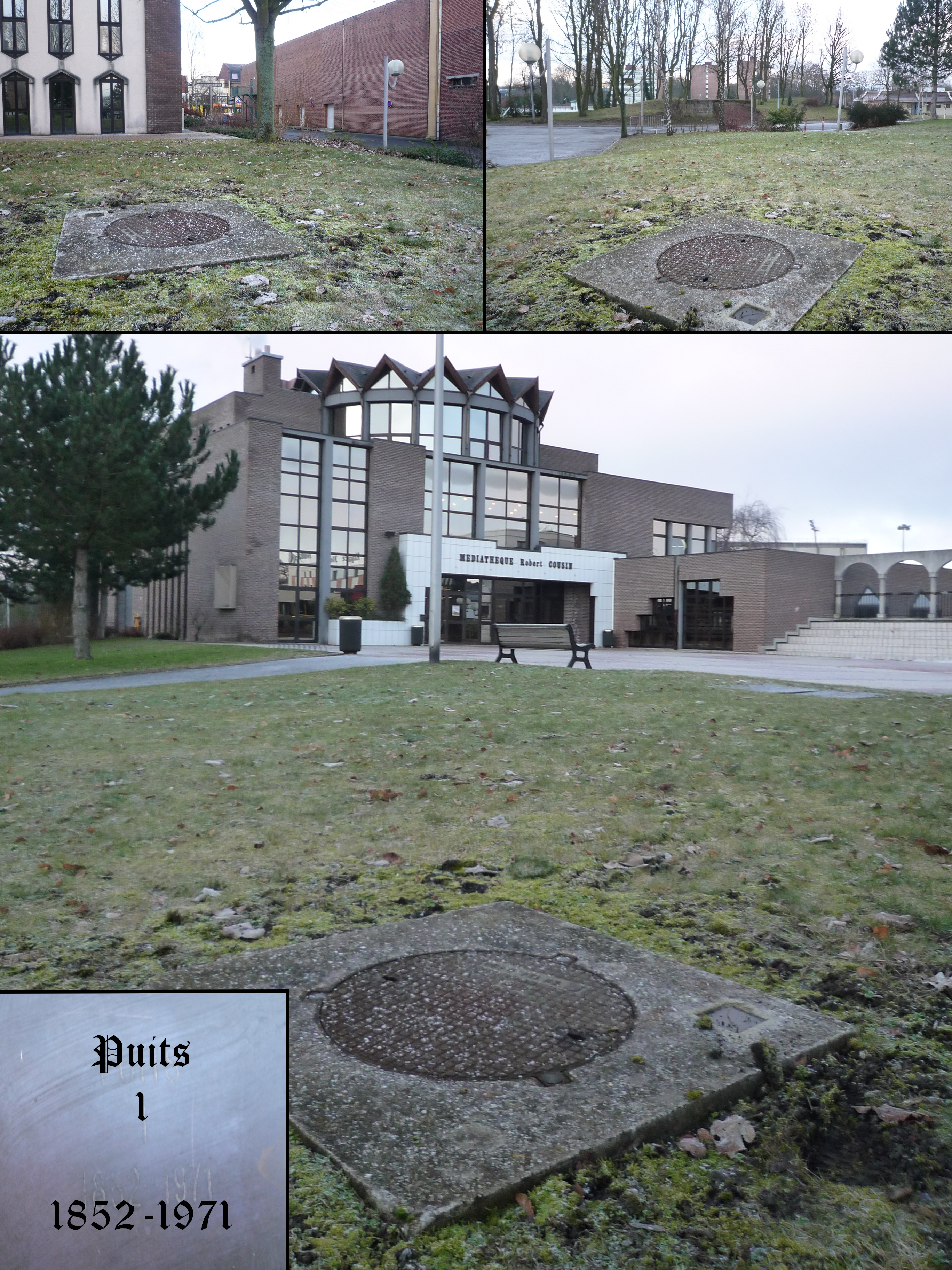 Pit n° 1, Compagnie des mines de Lens, Lens, Pas-de-Calais, Nord-Pas-de-Calais, France.